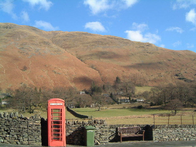 Patterdale village with Place Fell behind